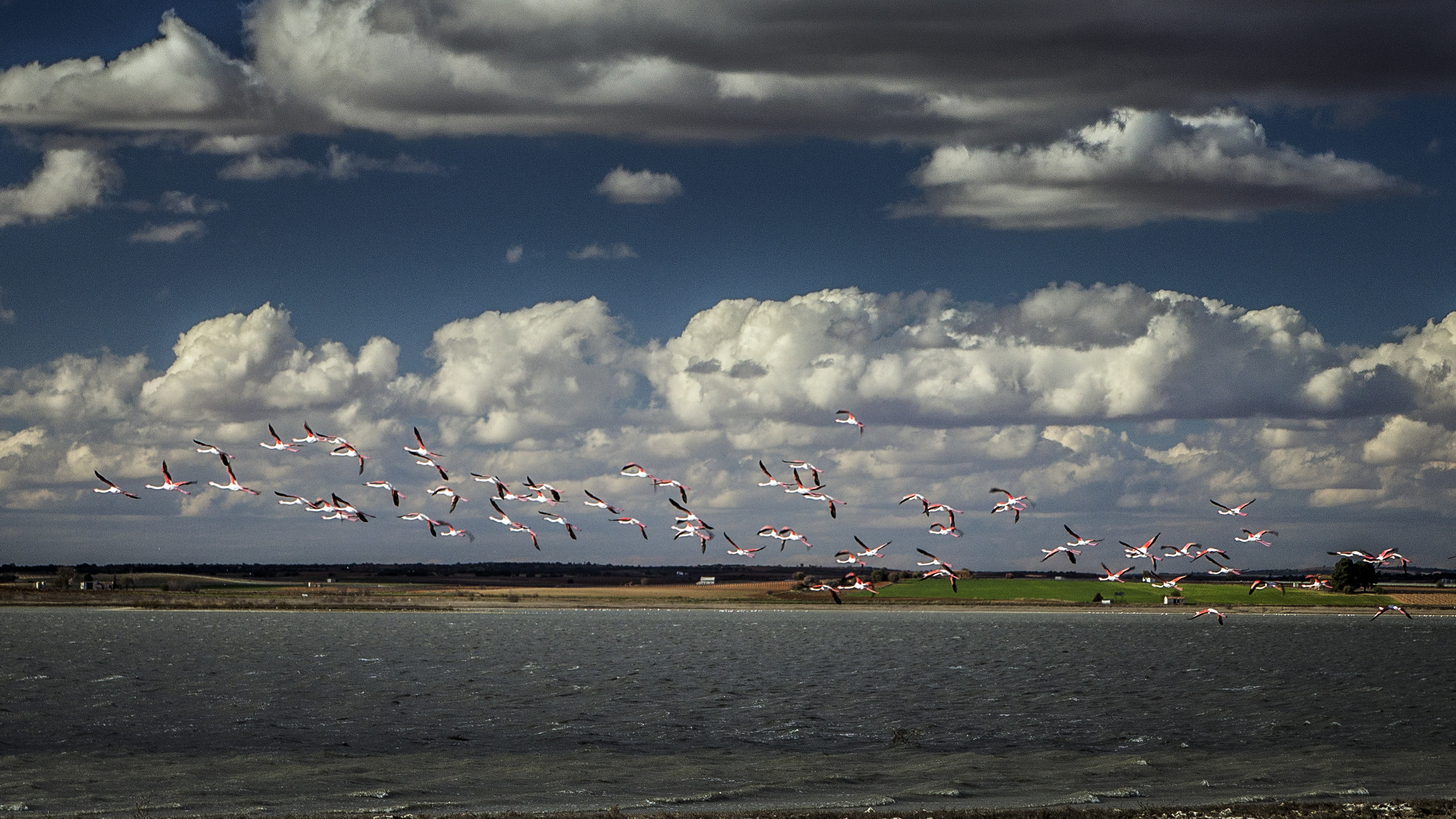 There is an important reserve for migratory birds close to the place where I live, so I took my camera and voilà. These days between winter and spring are important for flamingos (but they didn't let me a close approach and flew away literally). Please take a look of the photo in big size and watch the pink tones of these beautiful birds. This is a photography of a Special Area of Conservation in Spain with the ID: ES4250010. Natura2000 entry, EEA entry